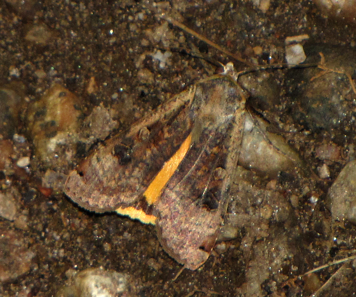 Large Yellow Underwing (Noctua pronuba), Gatineau Park, Quebec, Canada